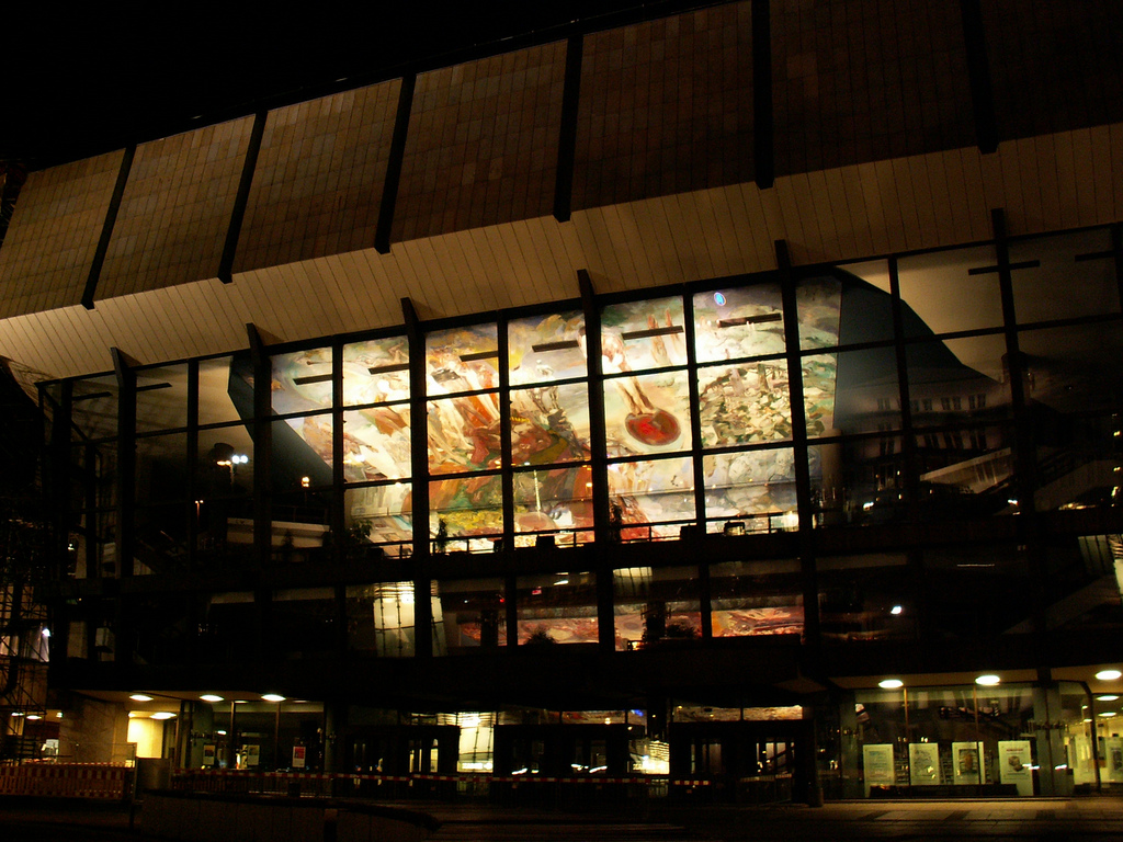 The Gewanhaus by night, the well knon concert hall in Leipzig, with it's wonderful ceiling in the foyer: "Gesang vom Leben" (The song of life") fresco by Sighard Gille.